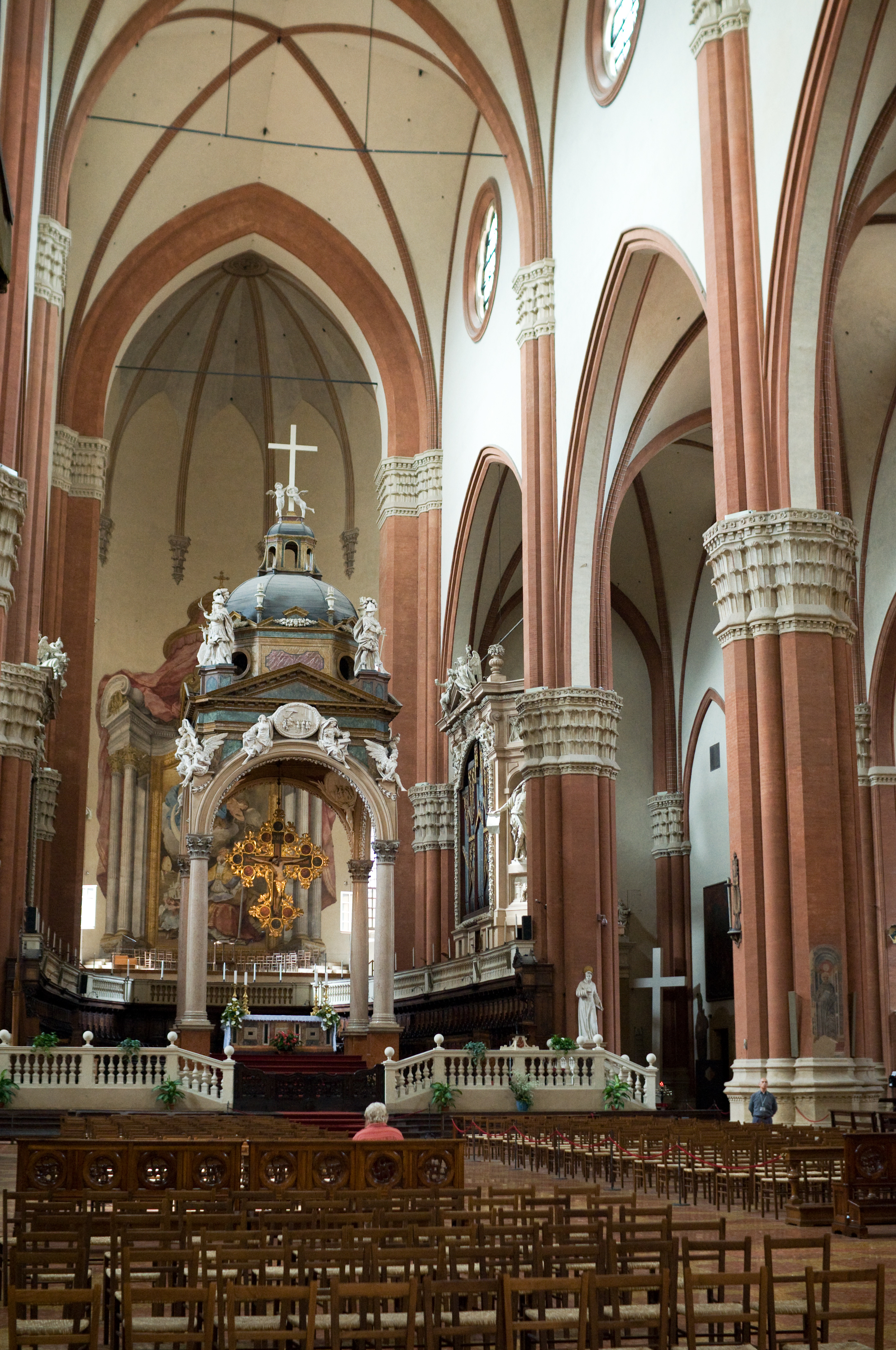 Interior of the Basilica of San Petronio in Bologna, Italy.